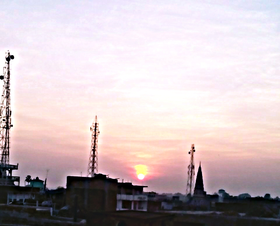 Sunset view of Sunset_view_of_Harnaut, Harnaut, Bihar, India